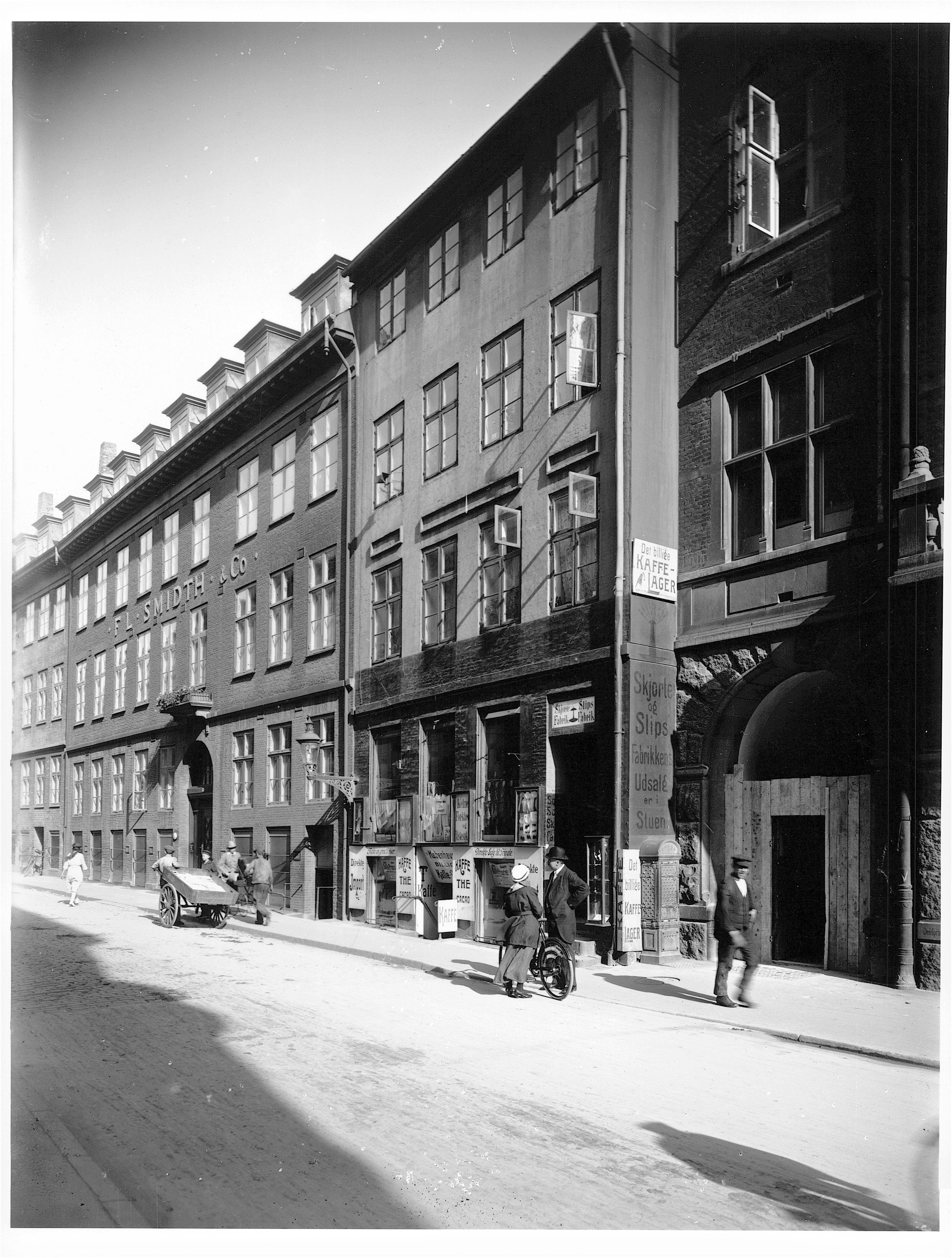 Vestergade 33 with F. L. Smidth's former headquarters in Copenhagen, Denmark